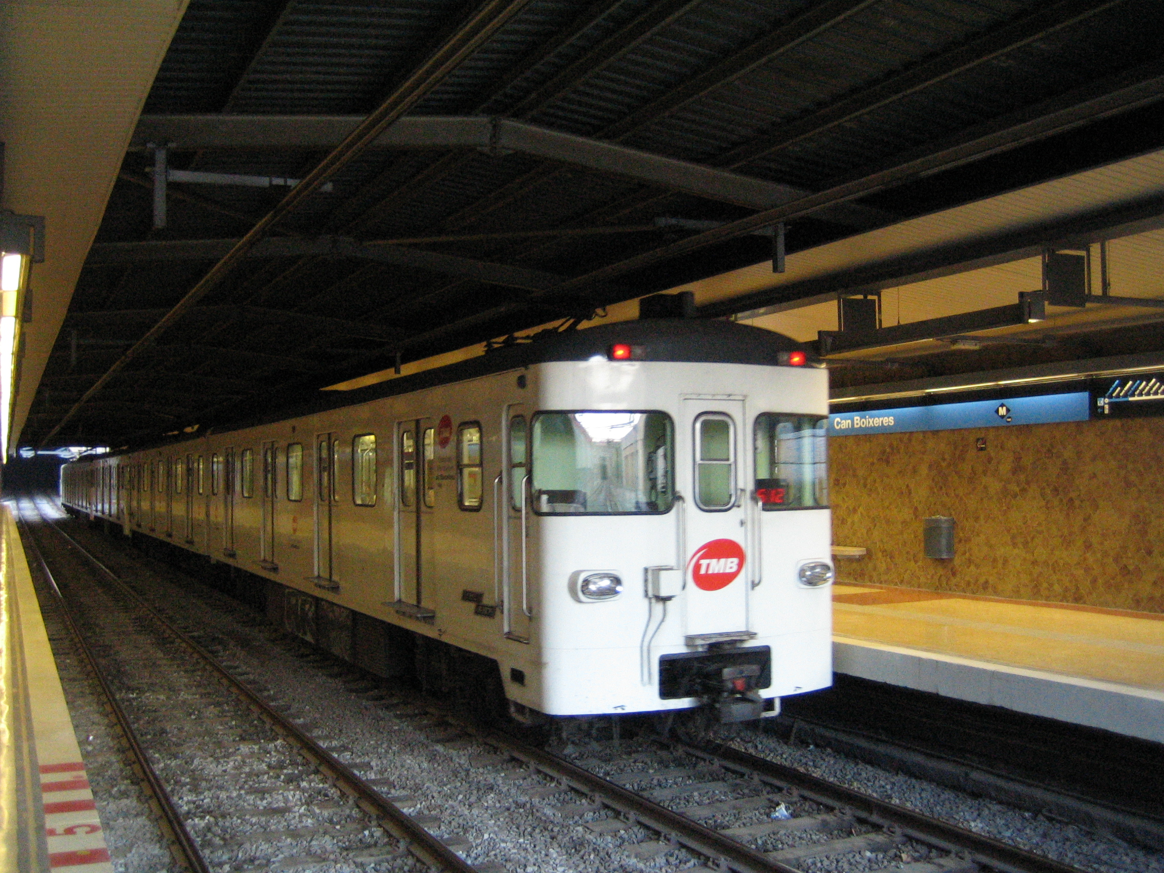 Train type 1000 of Barcelona's metro at Can Boixeres station